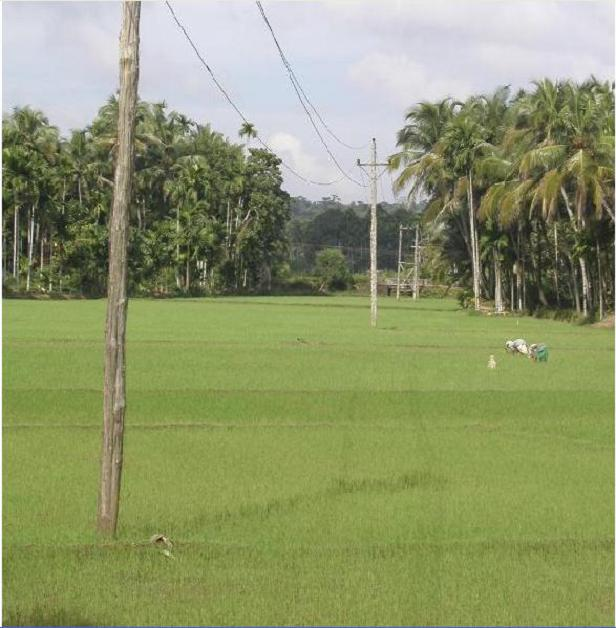 Paddy Field in Cherukunnu